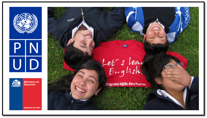 UNDP, MINEDUC